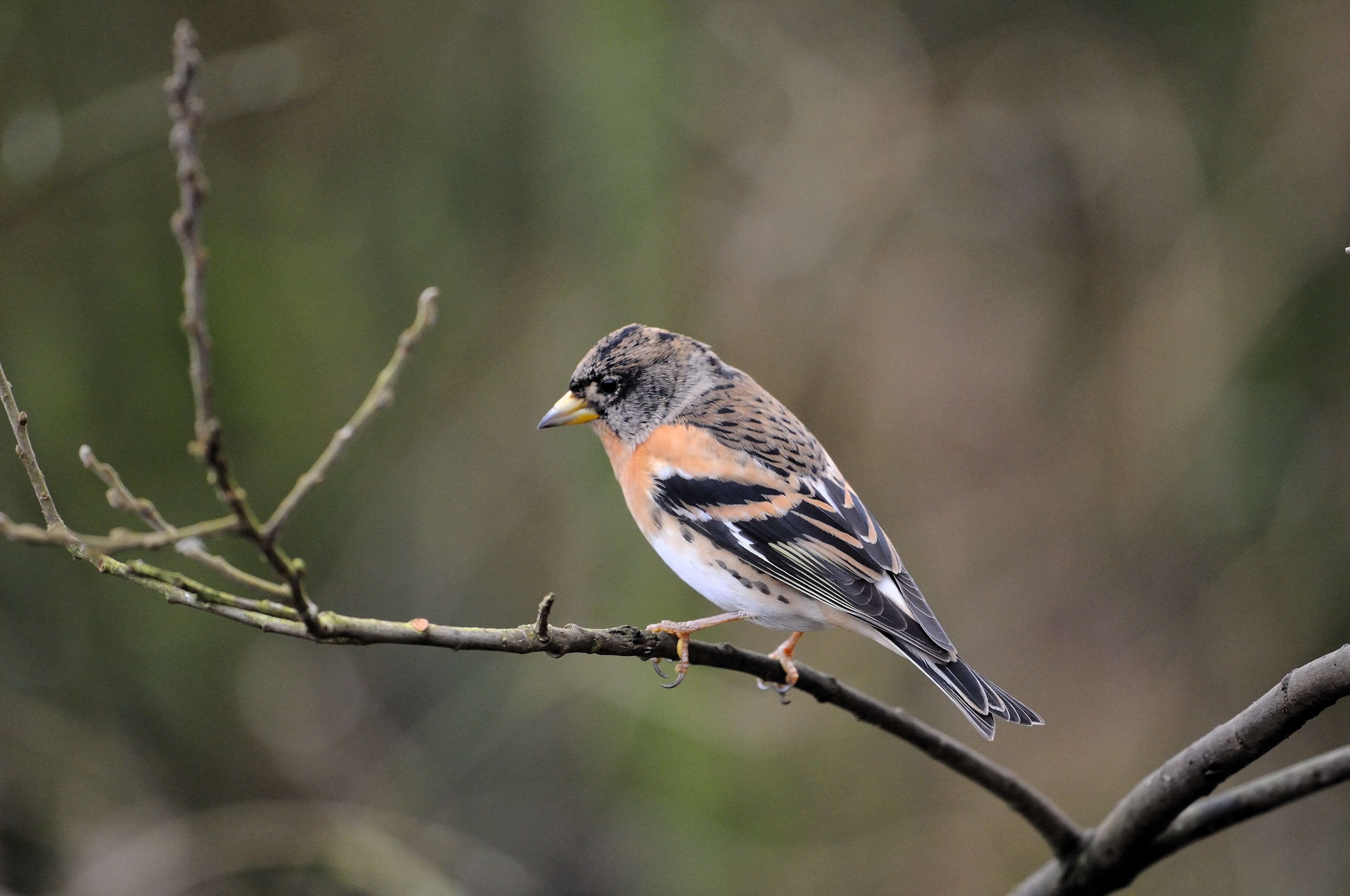 A male Brambling in England.